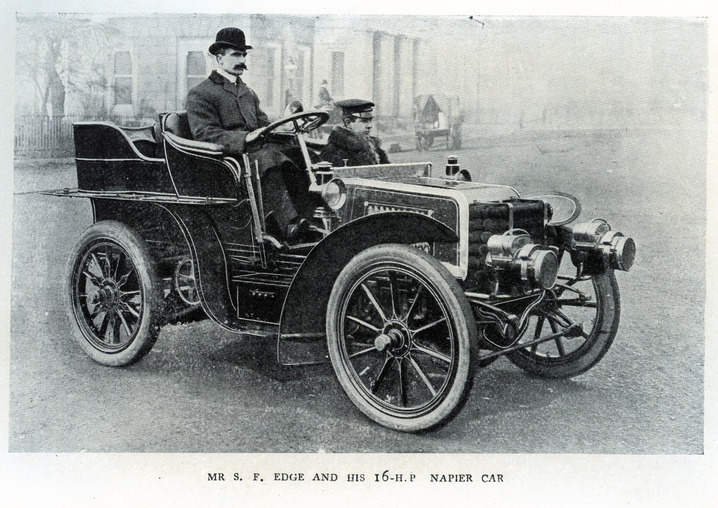 Mr S. F. Edge and his 16HP Napier Car The Motor Book by R. J. Mecredy, 1904. These images are from the original second edition.